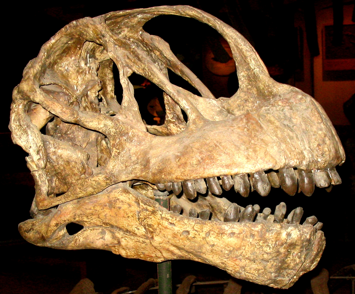 Camarasaurus lentus skull at the Smithsonian museum of Natural History